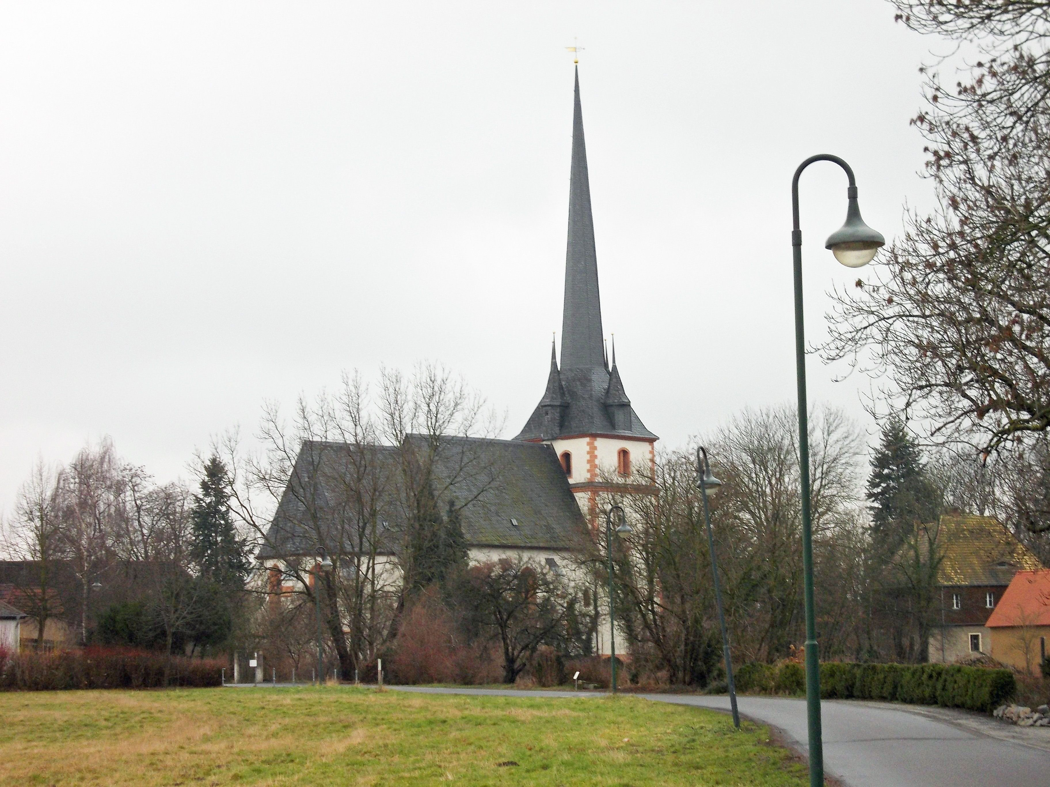 Podelwitz church from the north-east (Rackwitz, Nordsachsen district, Saxony)